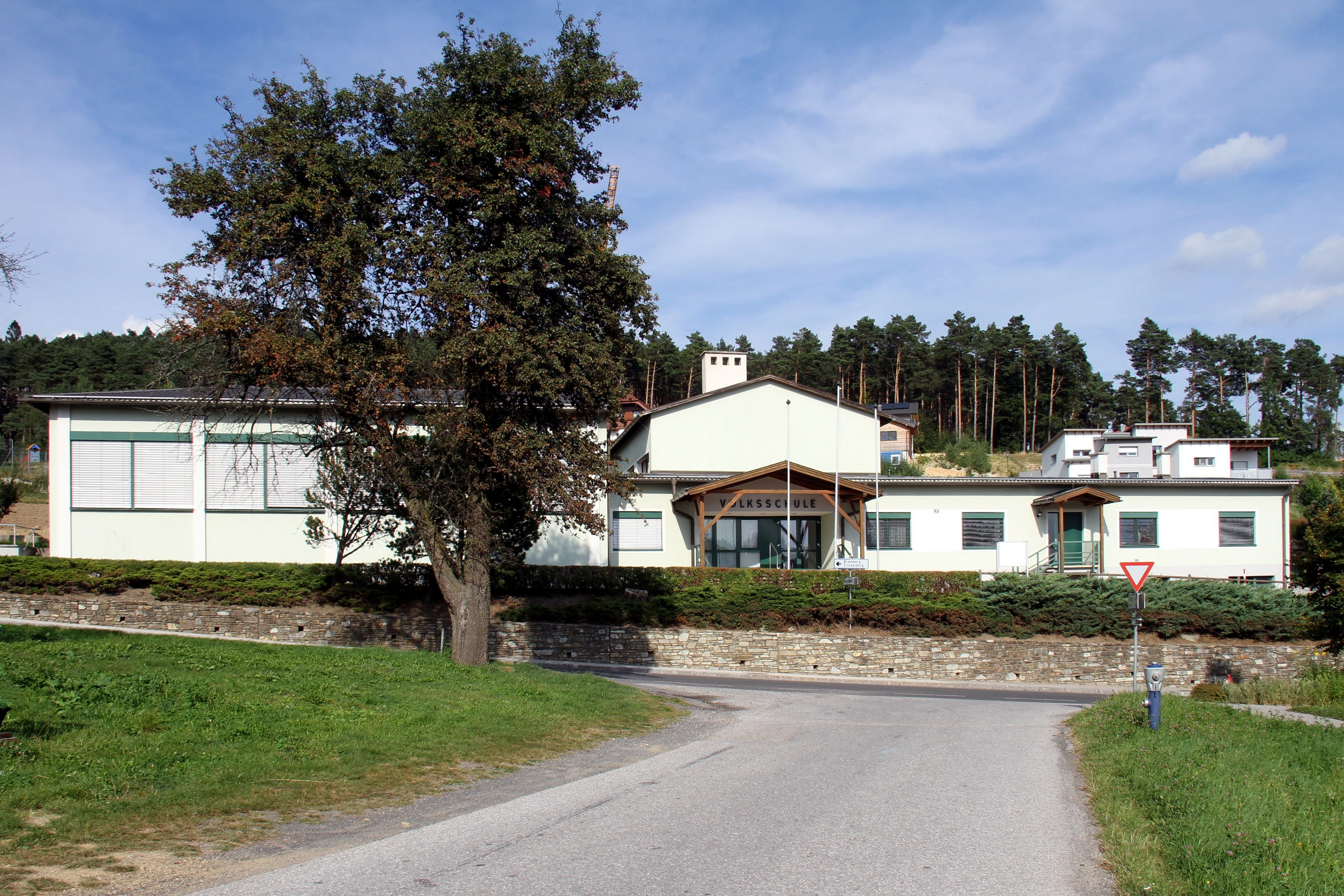 Municipality Hollenthon in Lower Austria. – The photo shows the elementary school in Hollenthon.